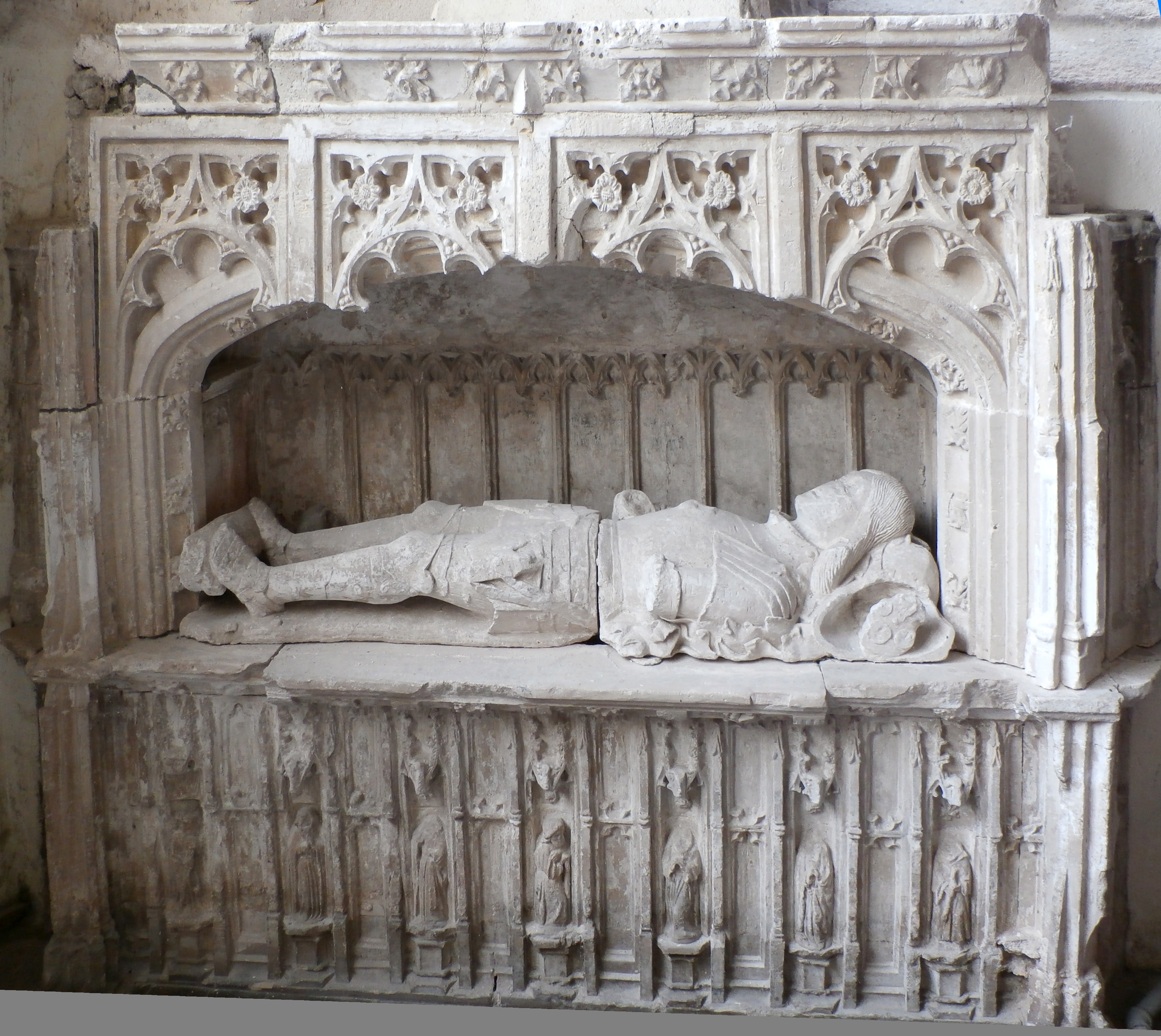 15th century monument to William Courtenay of Loughtor (since c.1710 "Newnham Park") Plympton St Mary, a younger son of Sir Philip Courtenay (d.1488) of Molland in North Devon. Stone effigy of a recumbent knight on a chest tomb within a canopied niche. South wall of south chancel aisle, St Mary's Church, Plympton